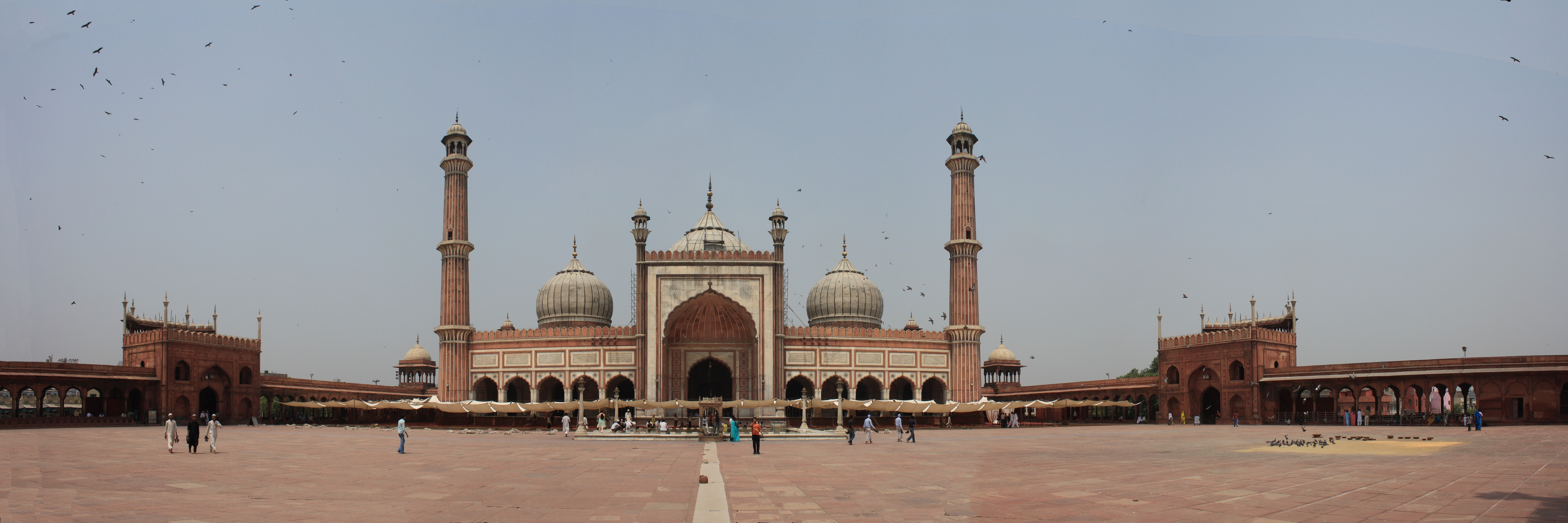 Jama Masjid Mosque in Delhi, India